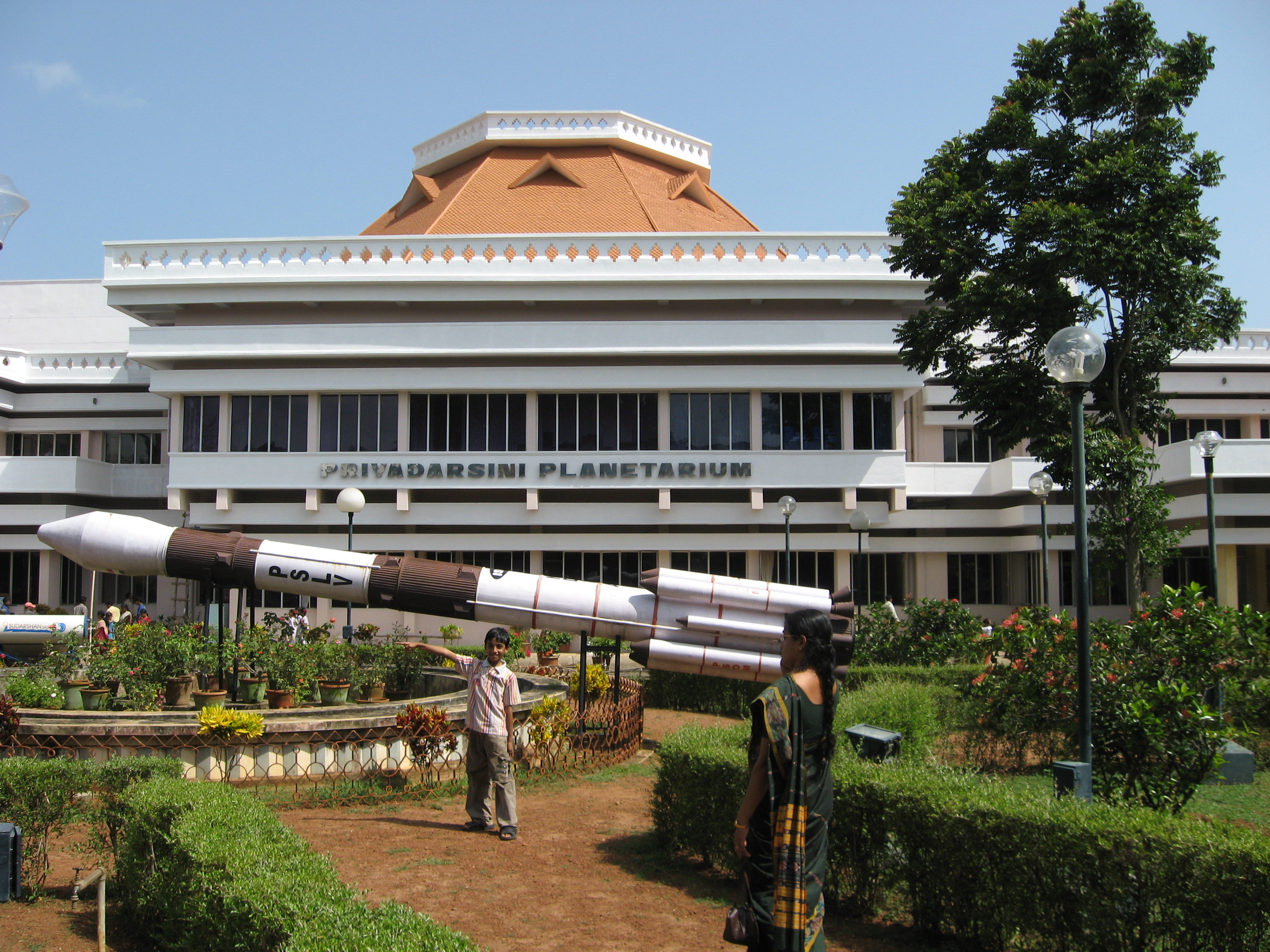 planetorium thiruvananthapuram